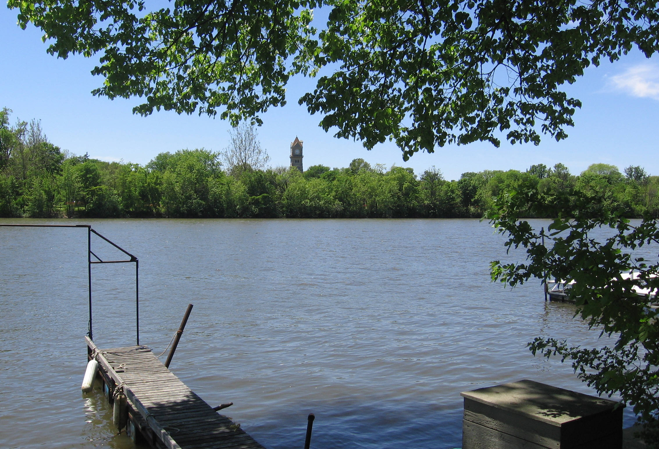 Photo looking southeast across the Kankakee River from Kankakee near Cobb Park. The clocktower of the Shapiro Developmental Center can be seen in the background.